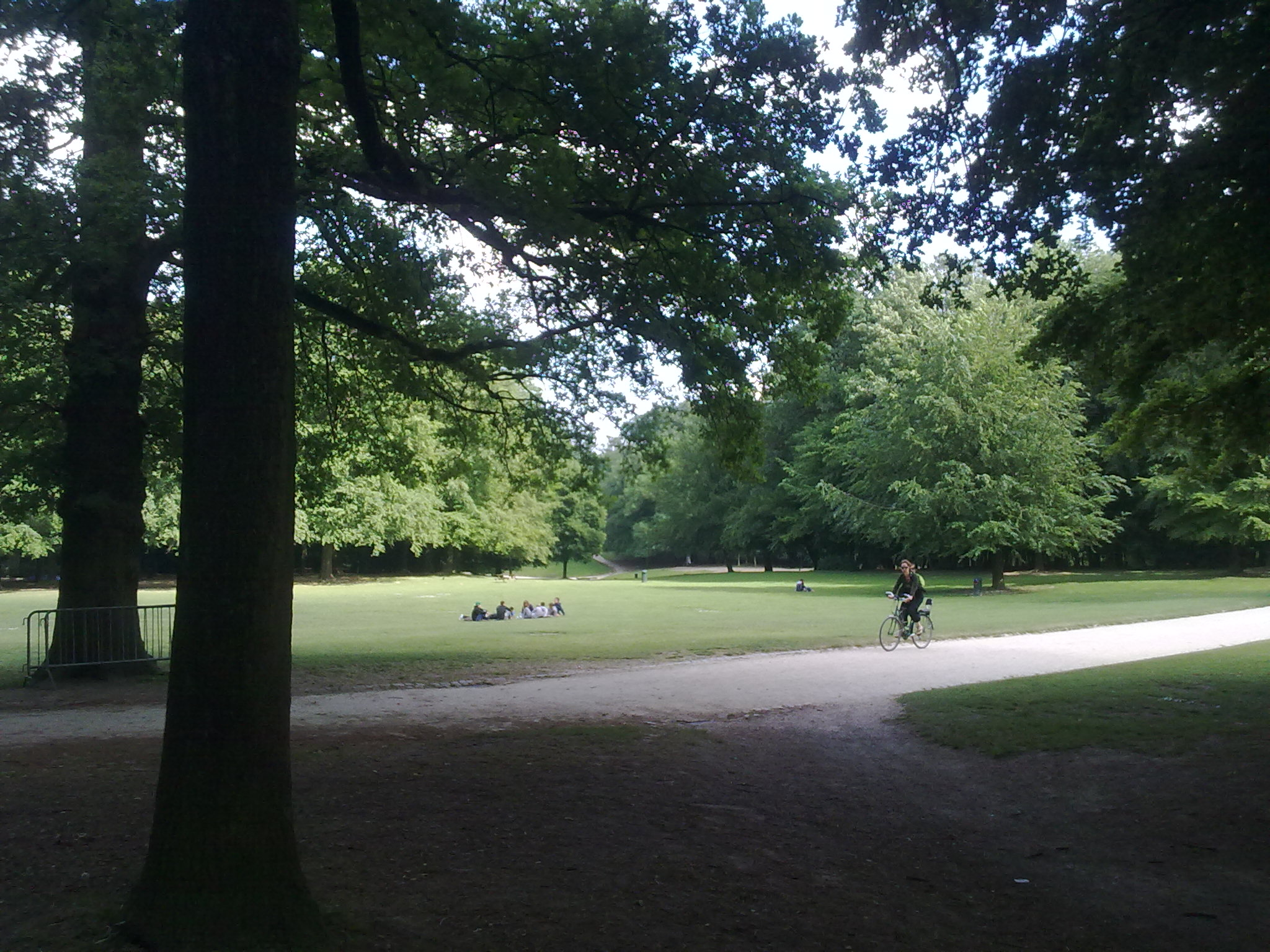 La Pelouse des Anglais (the Englishmen Lawn) in the Bois de la Cambre park, Brussels with the 150th anniversary oak tree in forefront.